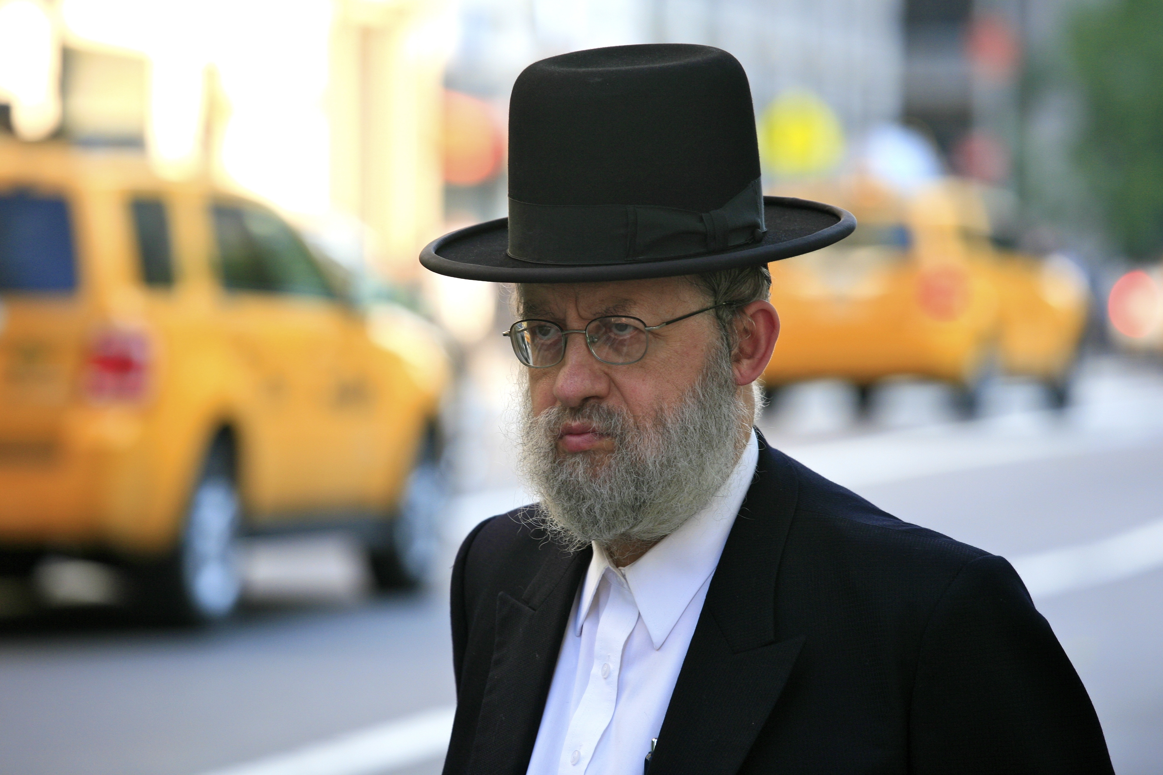 Haredi or Charedi/Chareidi Judaism is the most conservative form of Orthodox Judaism, often referred to as ultra-Orthodox. A follower of Haredi Judaism is called a Haredi (Haredim in the plural). Haredi Jews, like other Orthodox Jews, consider their belief system and religious practices to extend in an unbroken chain back to Moses and the giving of the Torah on Mount Sinai. As a result, they regard non-Orthodox, and to an extent Modern Orthodox, streams of Judaism to be deviations from authentic Judaism. Haredi Judaism comprises a diversity of spiritual and cultural orientations, generally divided into Hasidic and Lithuanian-Yeshiva streams from Eastern Europe, and Oriental Sephardic Haredim. Its historical rejection of Jewish secularism distinguishes it from Western European-derived Modern Orthodox Judaism. The word Ḥaredi (חֲרֵדִי), which originally was simply the Hebrew translation of Orthodox, is derived from charada, which in this context (Orthodoxy) is interpreted as "one who trembles in awe of God"; the word itself means fear or anxiety. As of 2011, there are approximately 1.3 million Haredi Jews. The Haredi Jewish population is growing very rapidly, doubling every 17 to 20 years. wikipedia